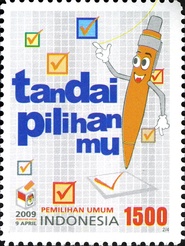 Stamps of Indonesia